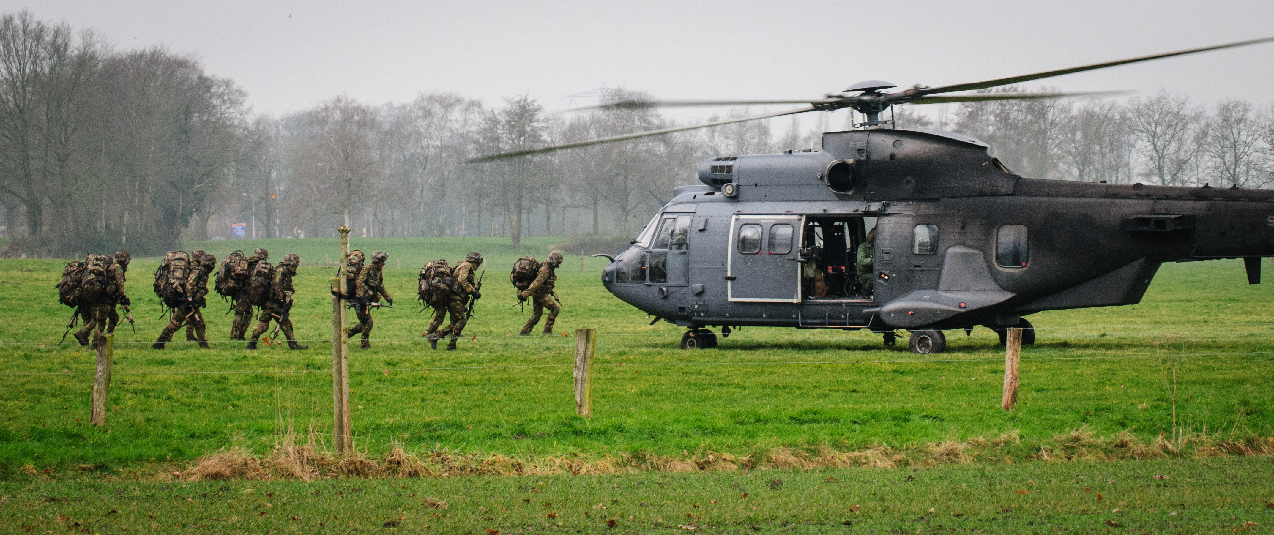 This was part of the final exercises for the Dutch Air Manoeuvre Brigade. During this week the soldiers had to participate in different missions and on friday, the final day they would be welcomed by their families and friends on return to the barracks. There they get the coveted red baret of the Air Manoeuvre Brigade. Nikon D300 with Tamron SP 70-300mm F/4-5.6 Di VC USD